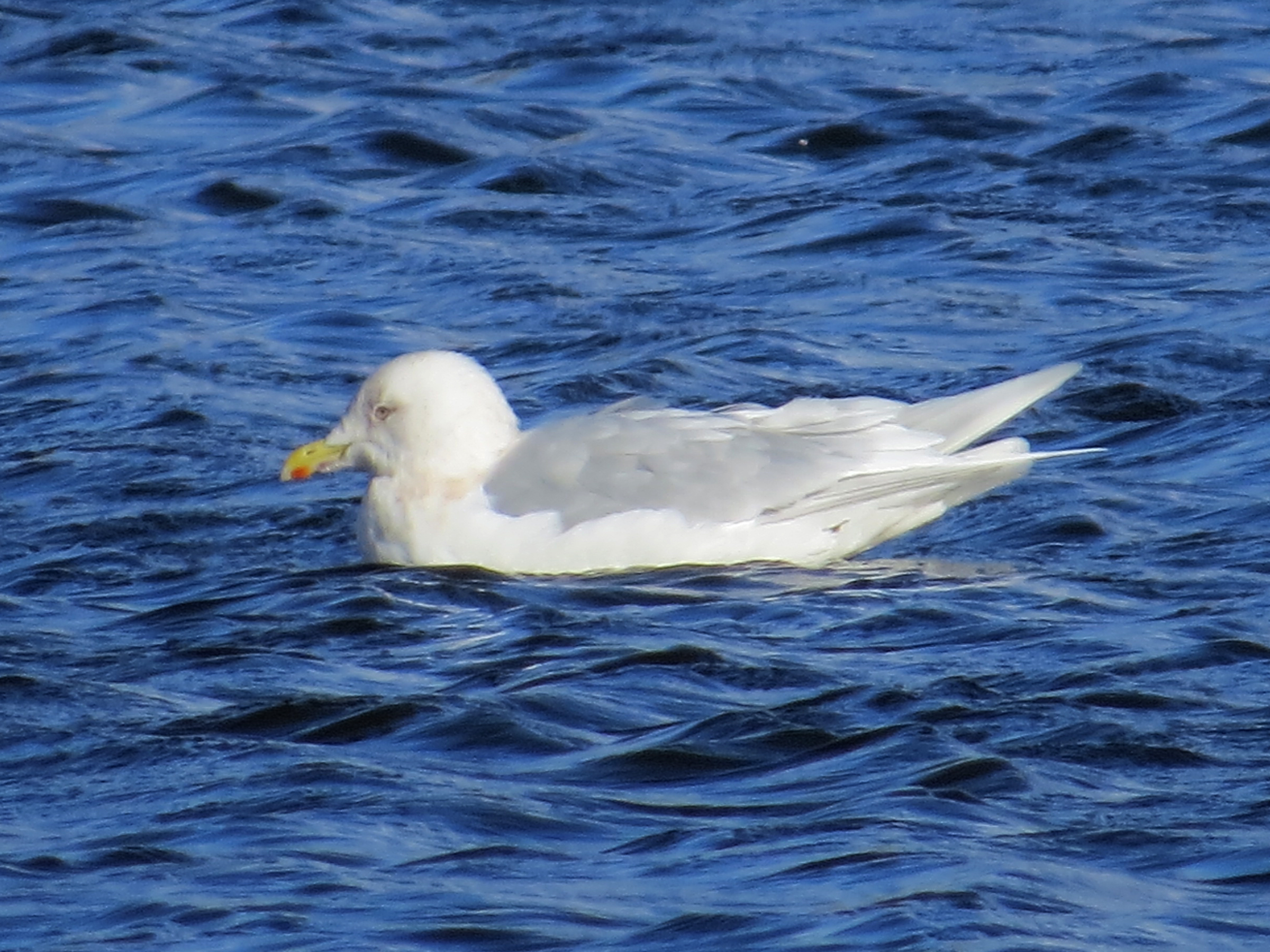 Adult Iceland Gull Larus glaucoides glaucoides, Swallow Pond, Northumberland